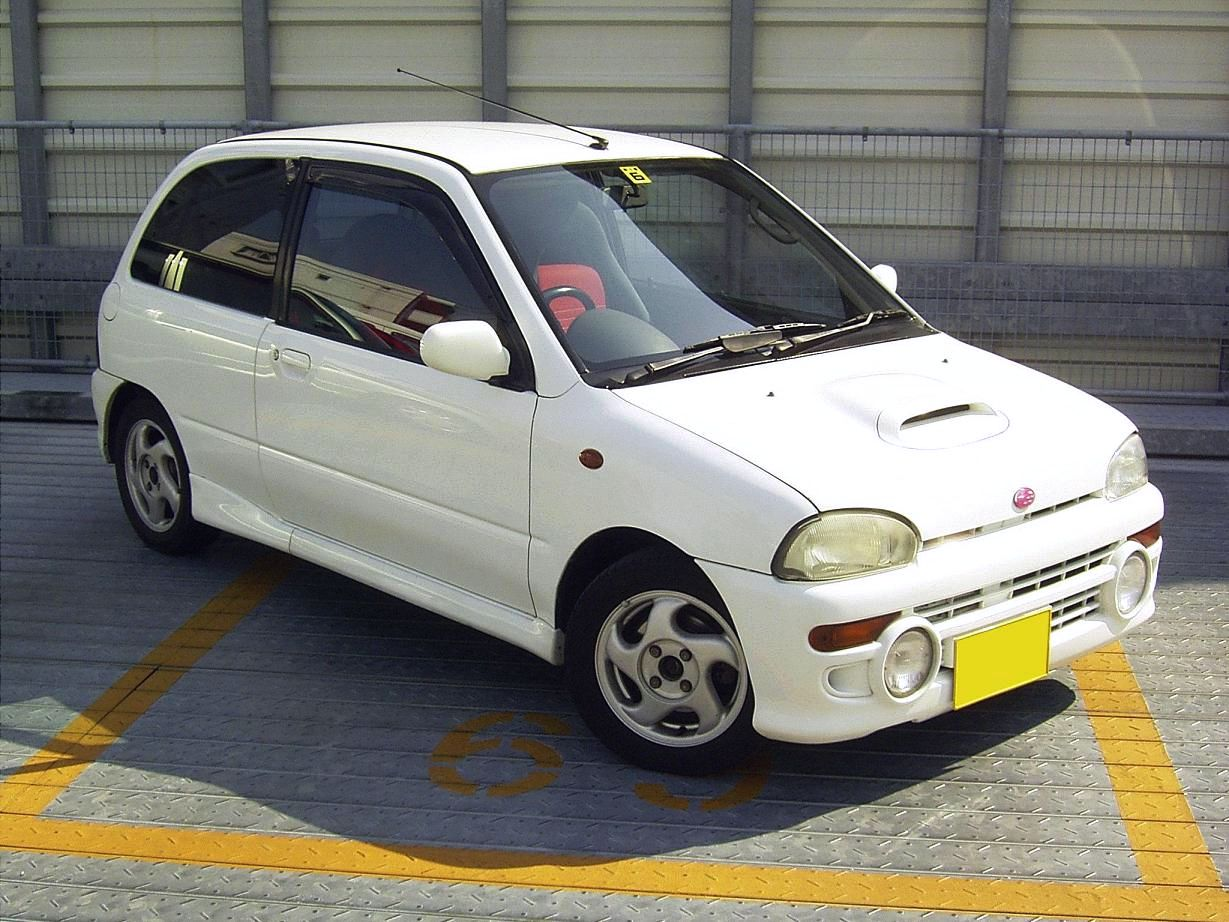 Subaru Vivio RX-R 4WD